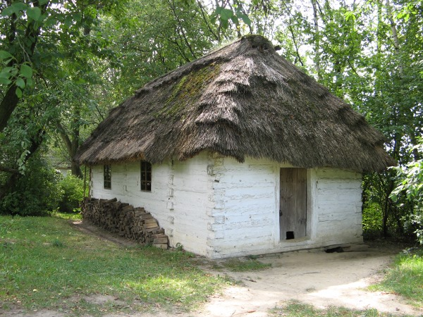 Skansen Museum in Nowy Sącz: poor cottage of Lachy Sadeckie, PL